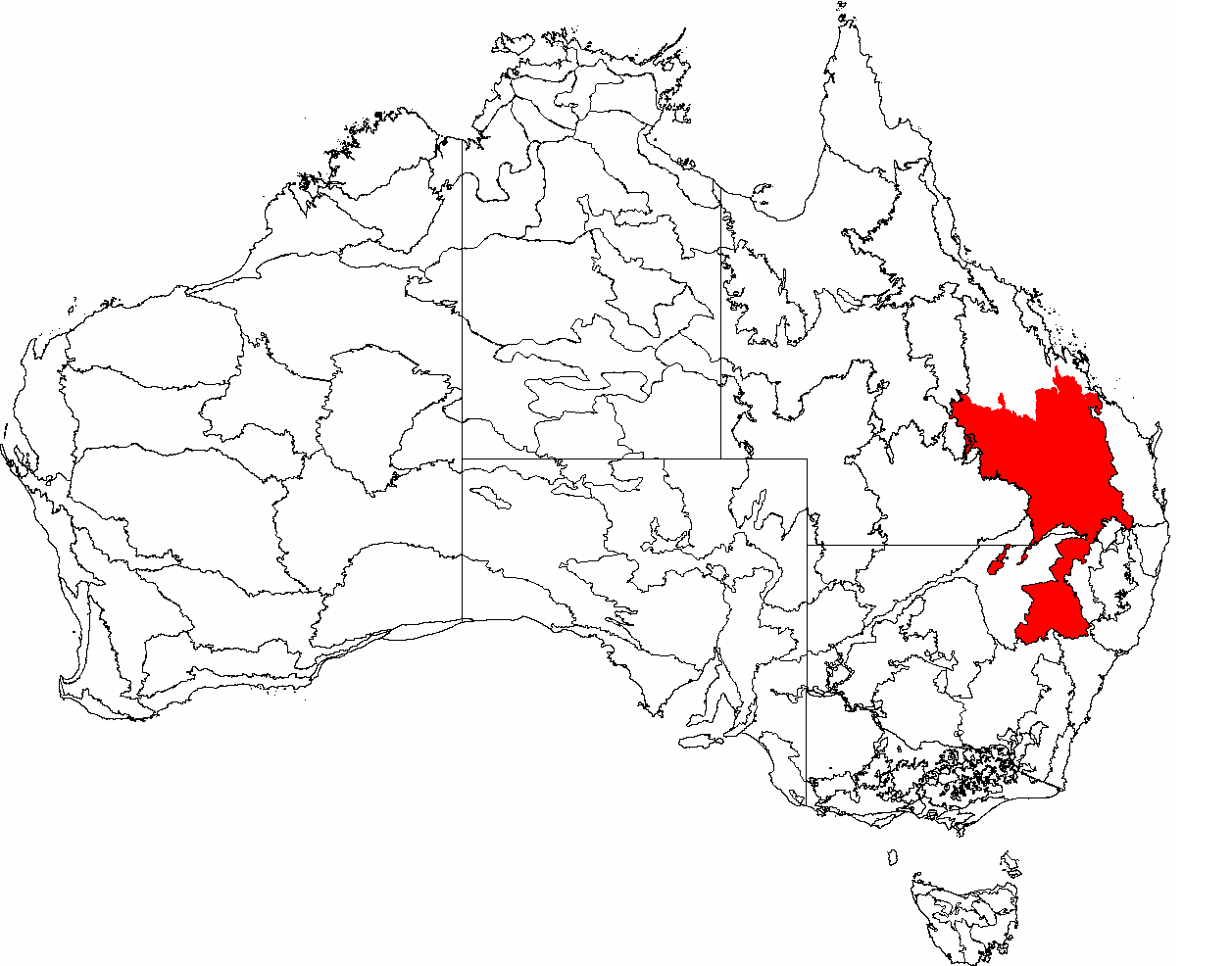 This is a map of the Interim Biogeographic Regionalisation of Australia (IBRA), with state boundaries overlaid. The Brigalow Belt South region is shown in red.